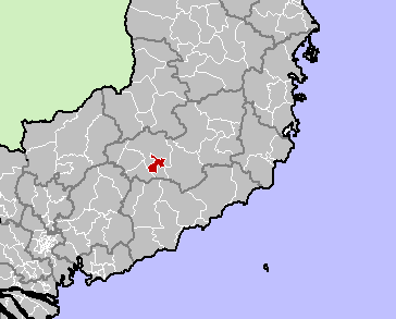 Bao Loc District, Lam Dong Province, Vietnam.